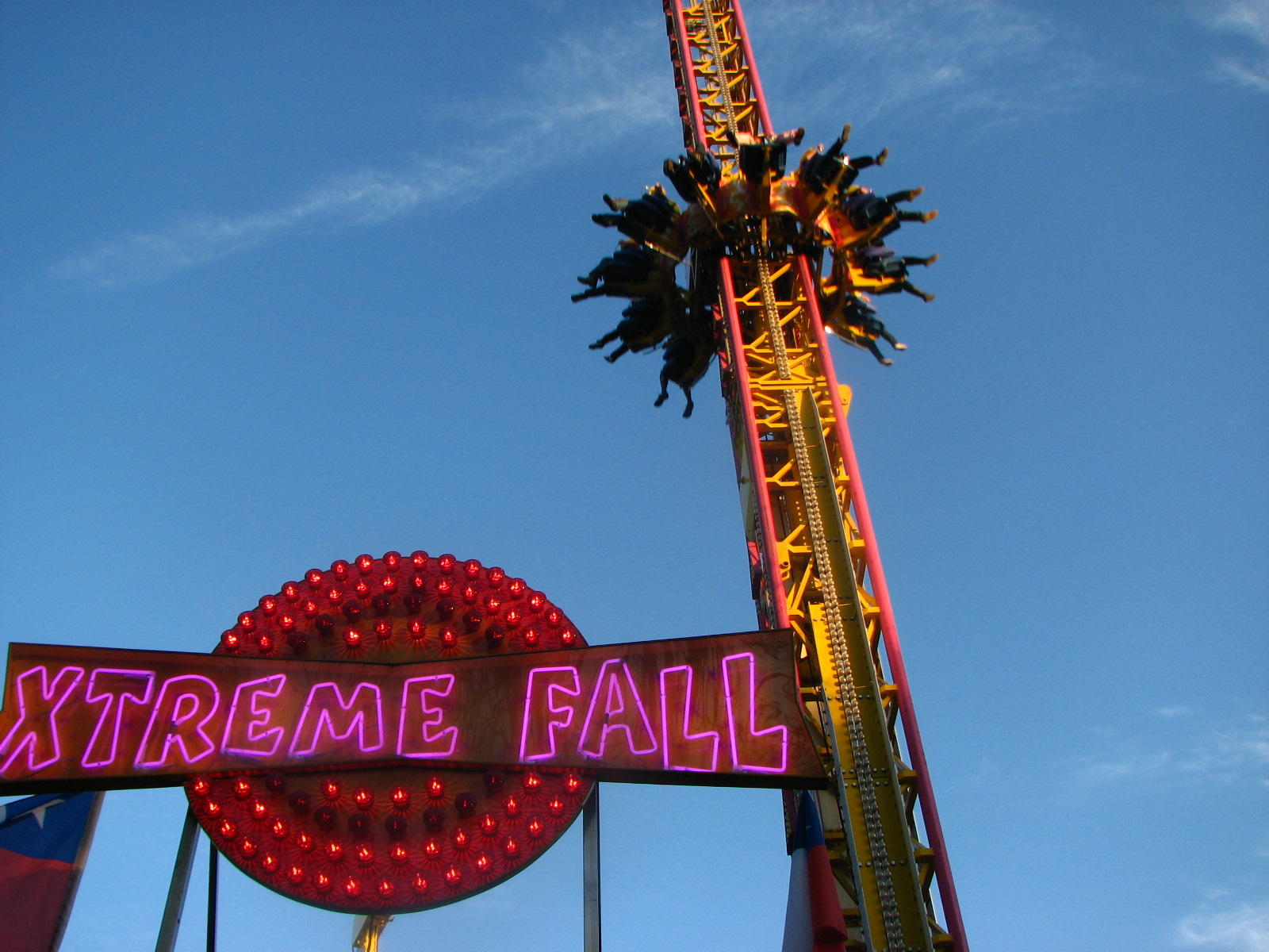 xtreme fall